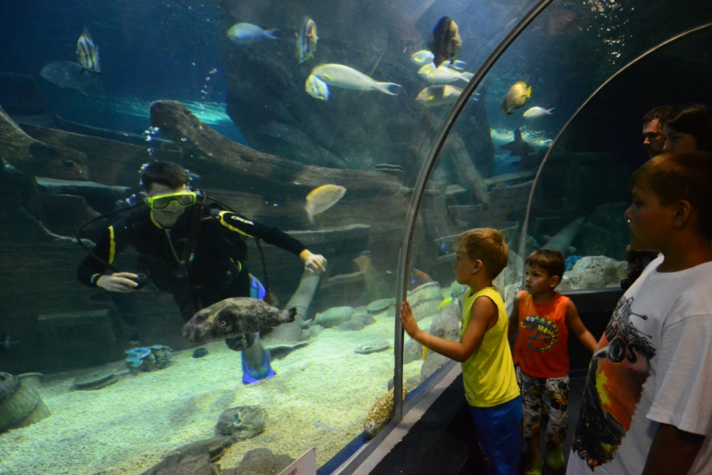 океанариум "Sochi Discovery World Aquarium"